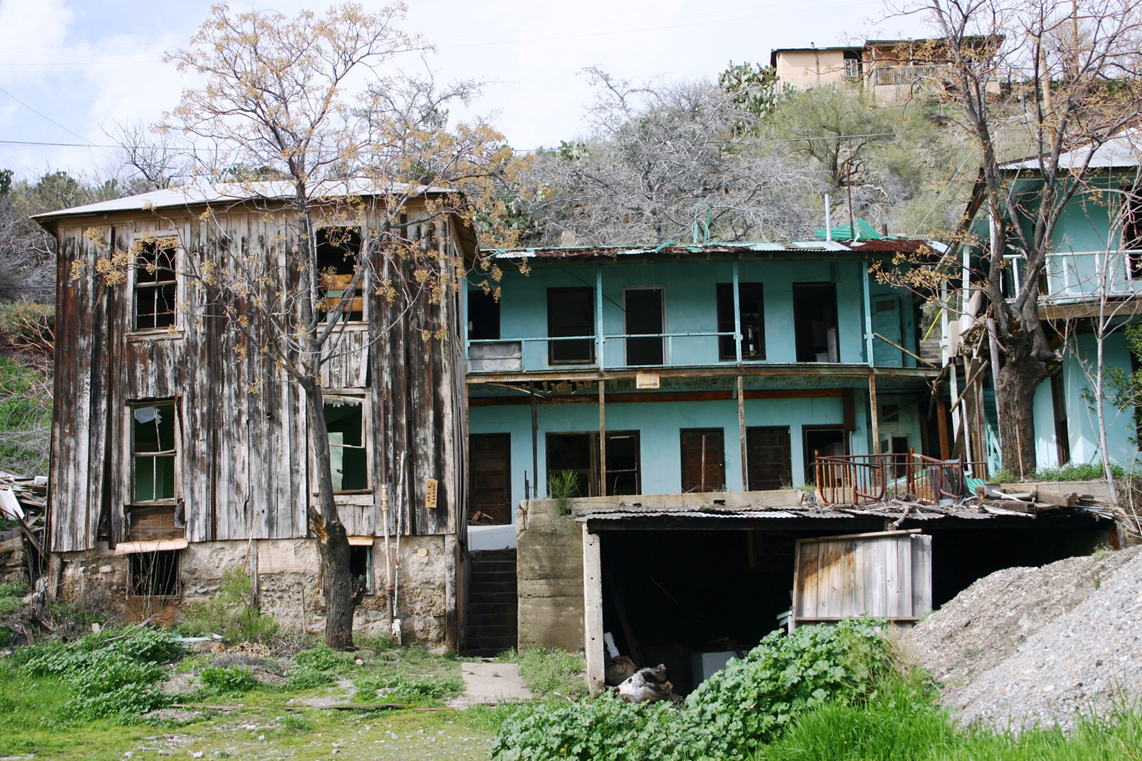 Old houses in Miami, Arizona Uploaded on April 20, 2005 by kevinzim (generic)